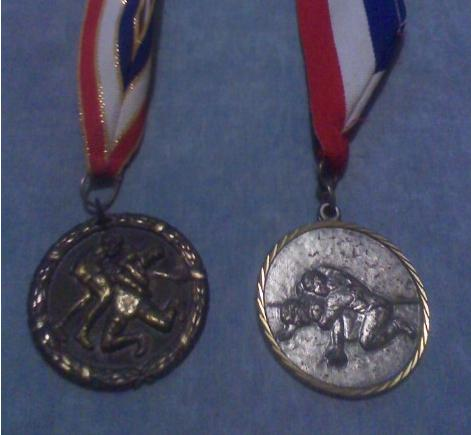 Medals for amateur wrestling by User:Moe Epsilon